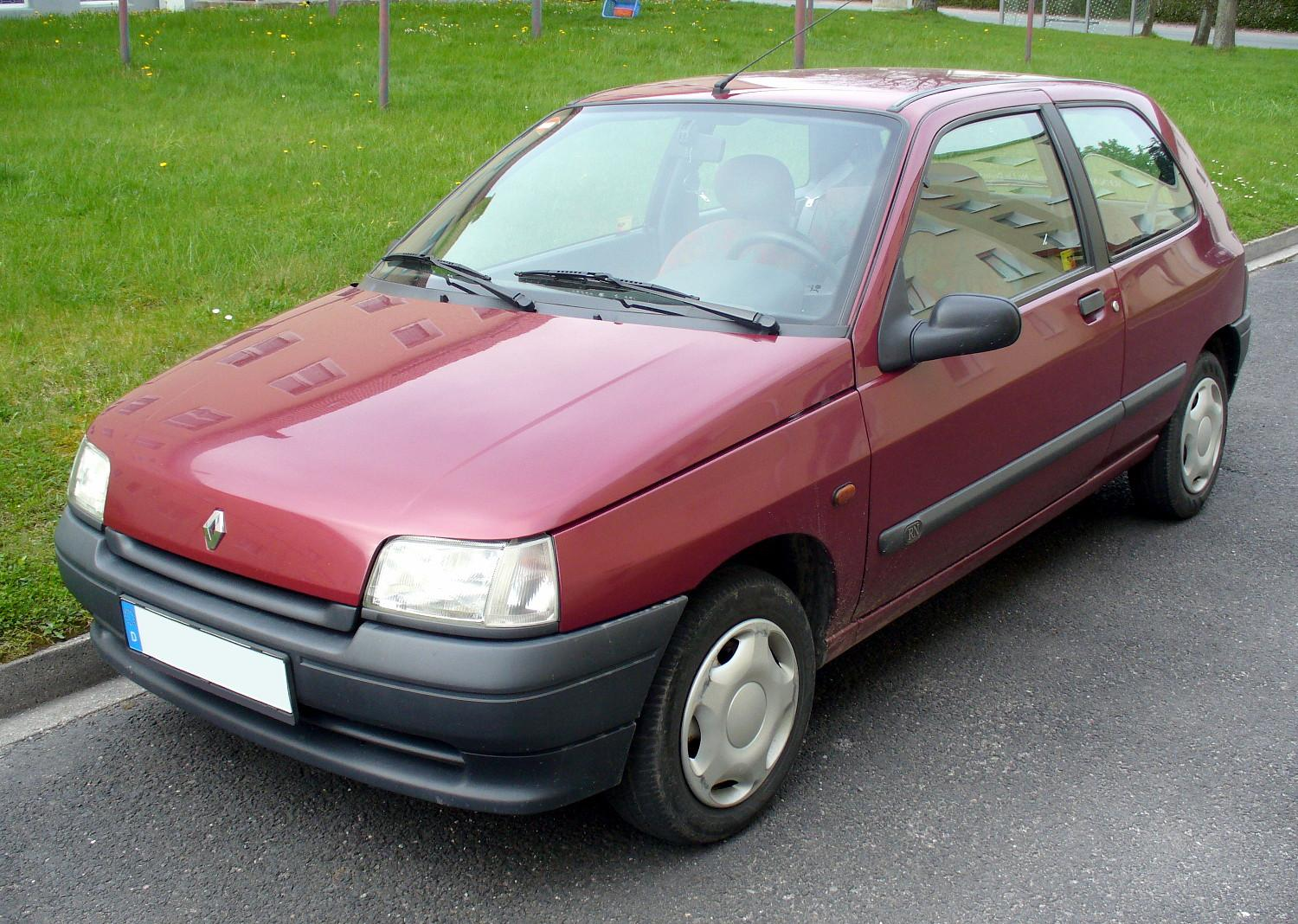 Renault Clio I Phase II